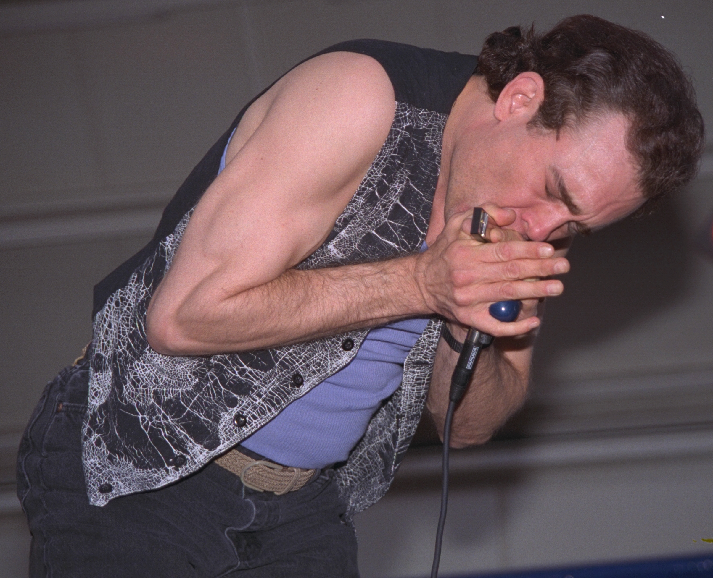 Greg Taylor performing at the 1996 Riverwalk Blues Festival in Fort Lauderdale, FL.